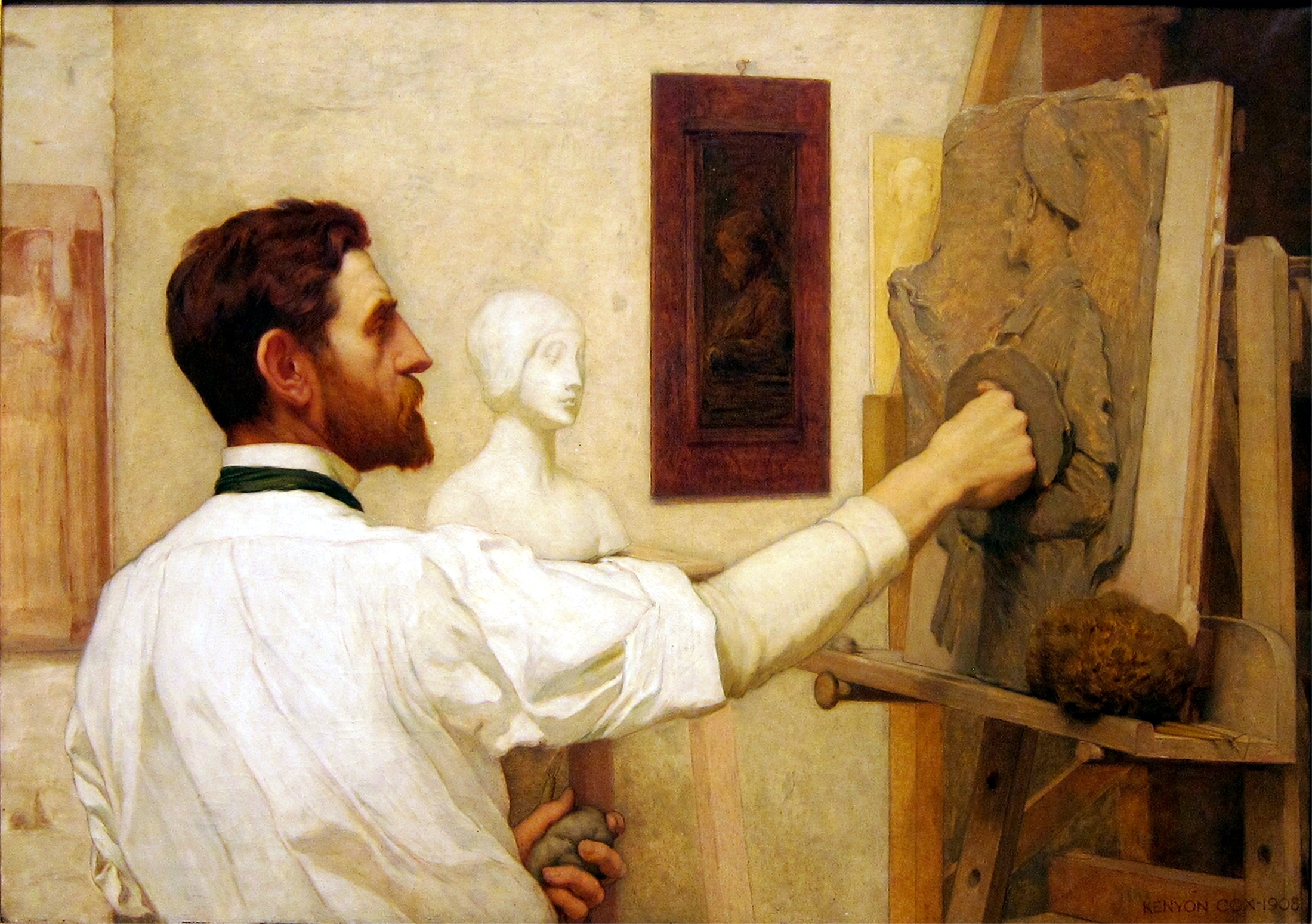 Cox and Augustus Saint-Gaudens (1848–1907) met in Paris in the 1870s and exchanged portraits in 1887: an oil painting for a bronze relief. The original canvas was lost in Saint-Gaudens’s 1904 studio fire, so Cox created this replica in time for the Metropolitan Museum’s 1908 memorial exhibition of the sculptor’s work.